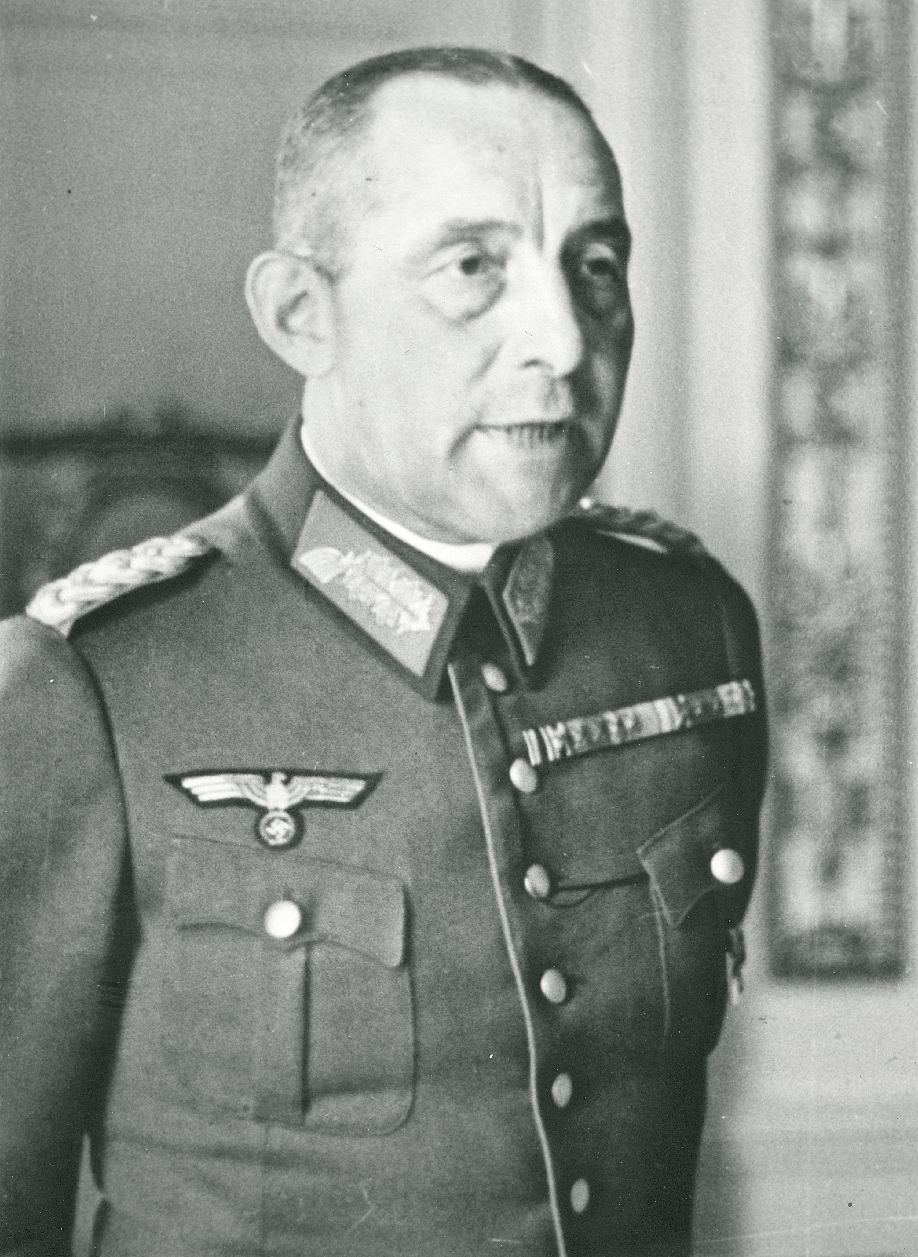 Erich Lüdke at a press conference in September 1942, following his dismissal due to the Telegram Crisis